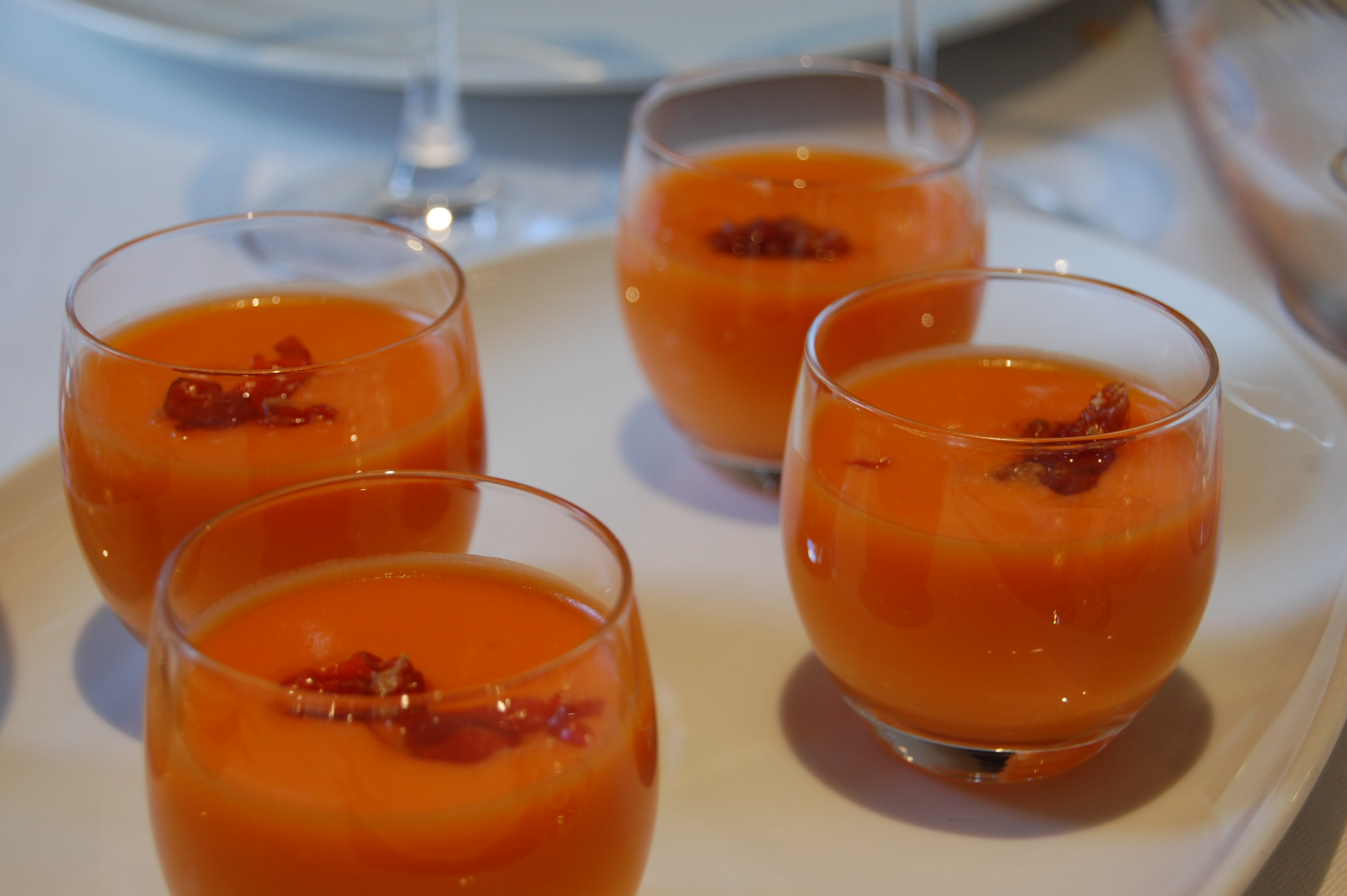 Lovely gazpacho with a touch of bacon (crisp jamon).